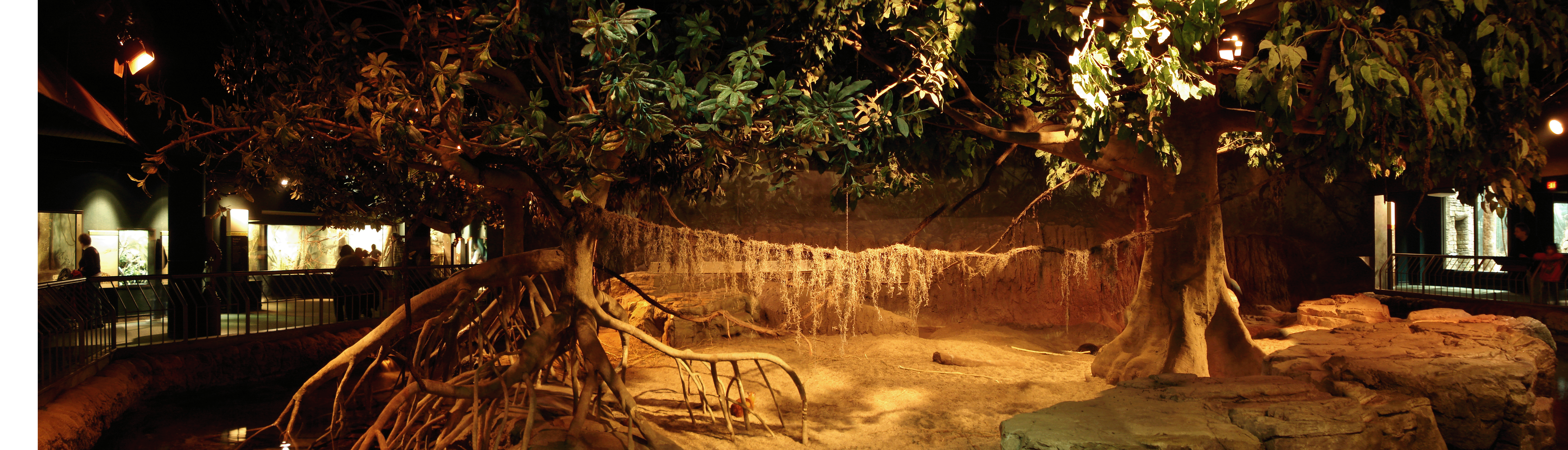 Tropical Rain Storm at the rainforest exhibit at the cleveland metroparks zoo